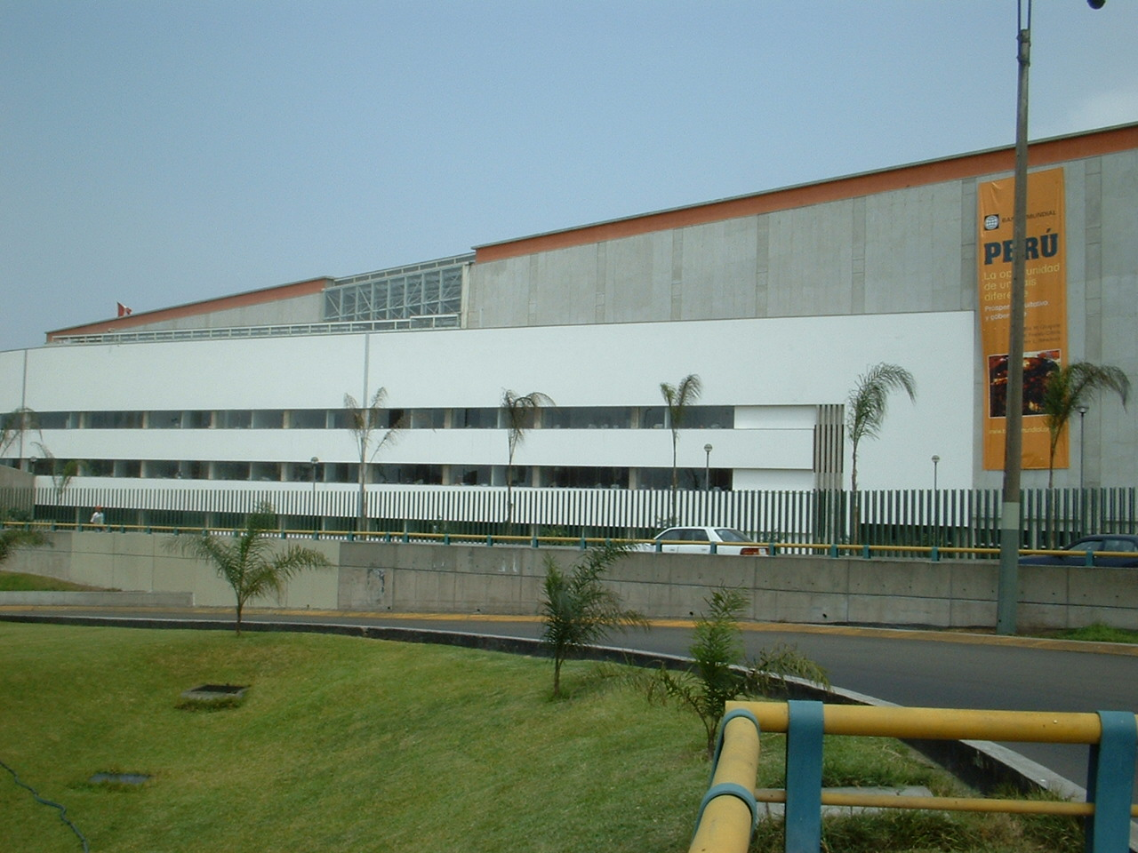 Biblioteca Nacional, Peru